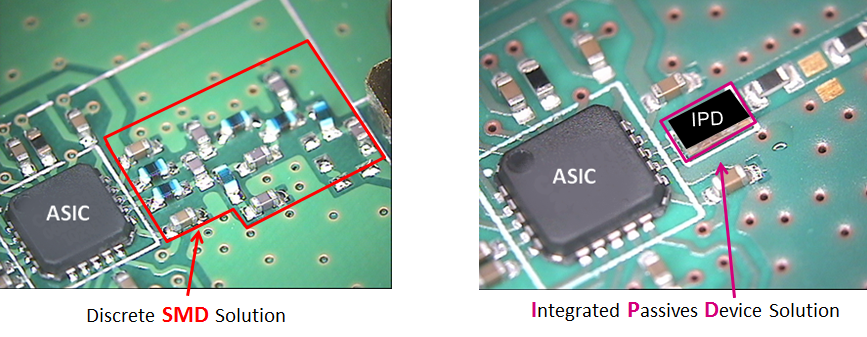 Integrated Passive Devices offer design simplification by reducing the Bill of Material. It offers high system integration and reliability improvement by decreasing the number of solder joins compare to discrete surface mount devices. Providing all kind of capacitor, inductor and resistor values can be designed and integrated, IPD devices using glas or High resistivity silicon substrate can provide improved RF performances. They can be used from 169MHz to above 60GHz.